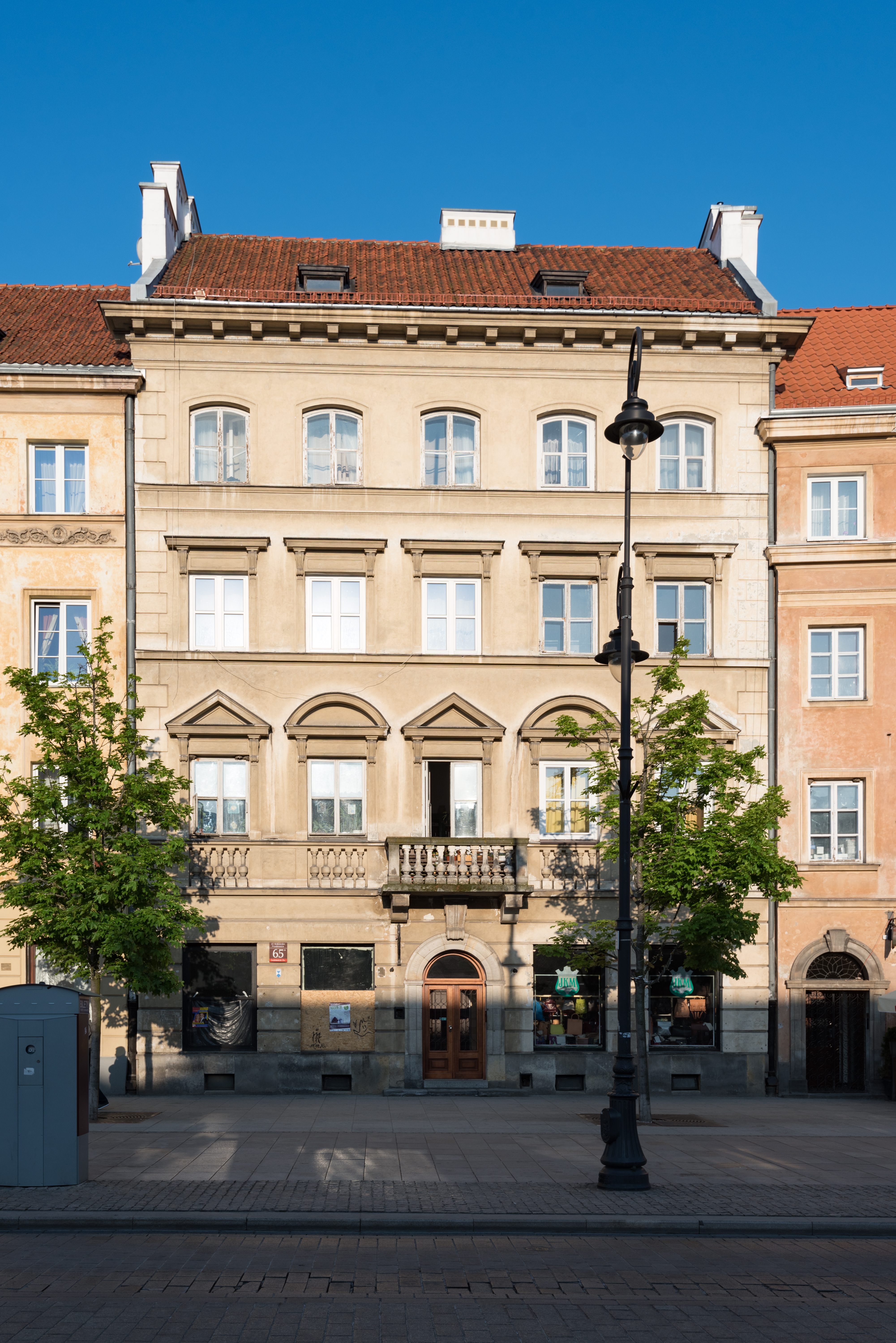 Warszawa, ul. Krakowskie Przedmieście 65, Kozia 42